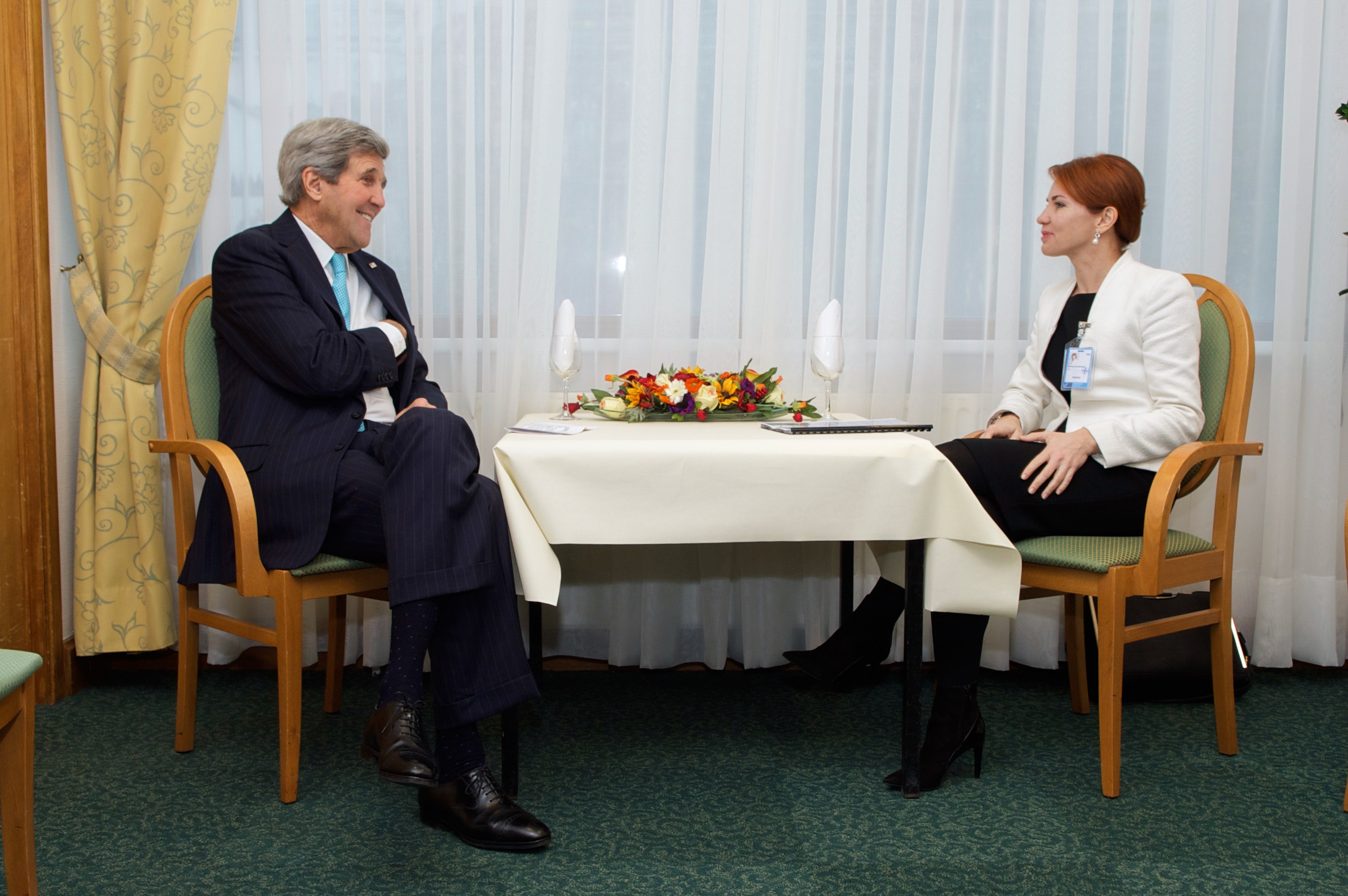 U.S. Secretary of State John Kerry sits with Estonian Foreign Minister Keit Pentus-Rosimannus during a bilateral meeting on the margins of a series of multinational discussions at NATO Headquarters in Brussels, Belgium.